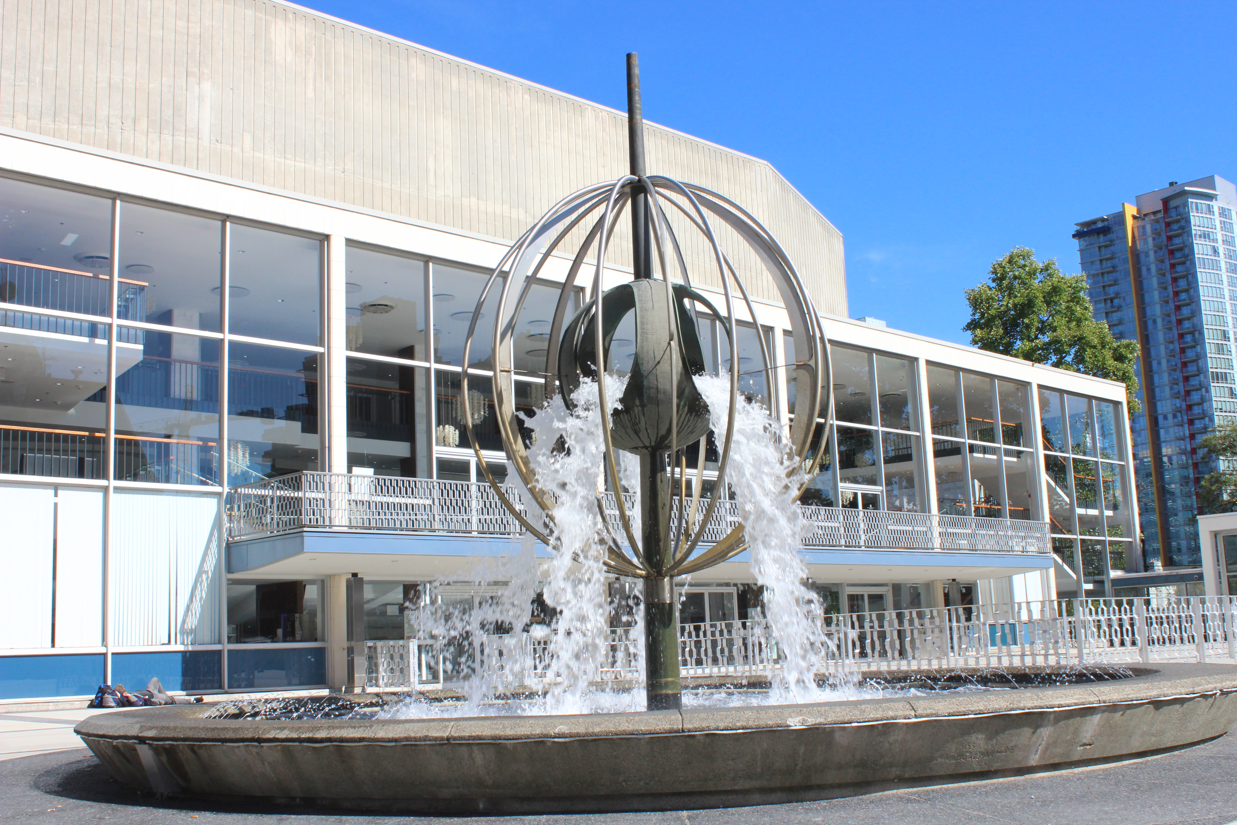 the fountain in front of the queen elizabeth theatre in vancouver